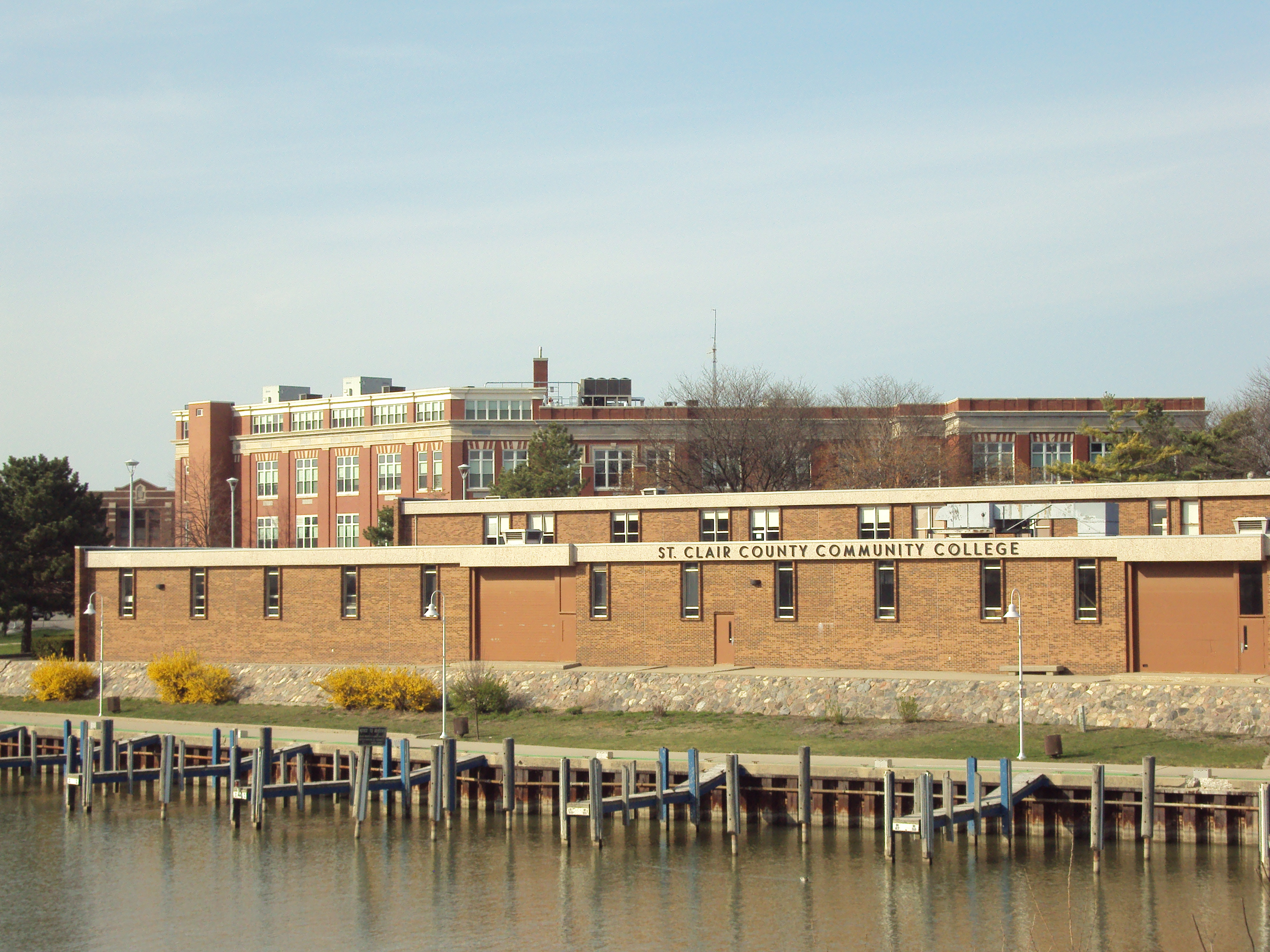 Depicted place: St. Clair County Community College